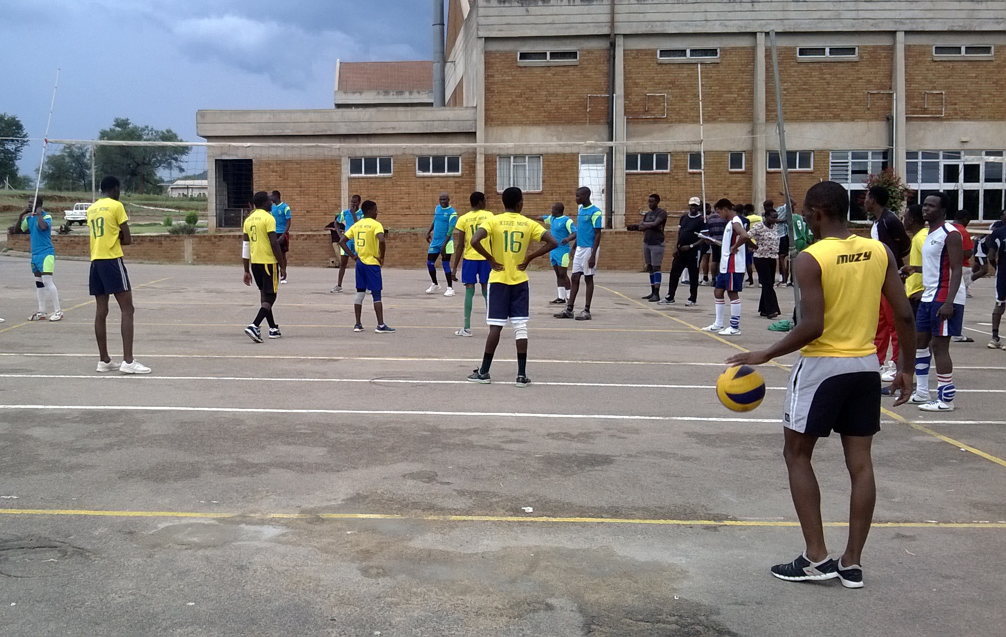 JM